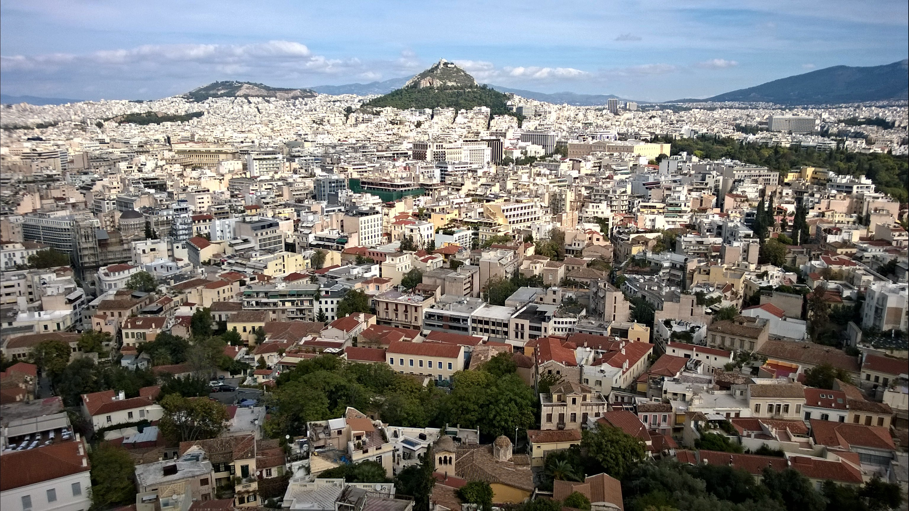 Athens, Greece